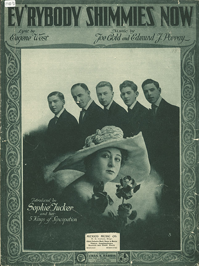 "Ev'rybody Shimmies Now" sheet music cover with photo of Sophie Tucker "and her 5 Kings of Syncopation"